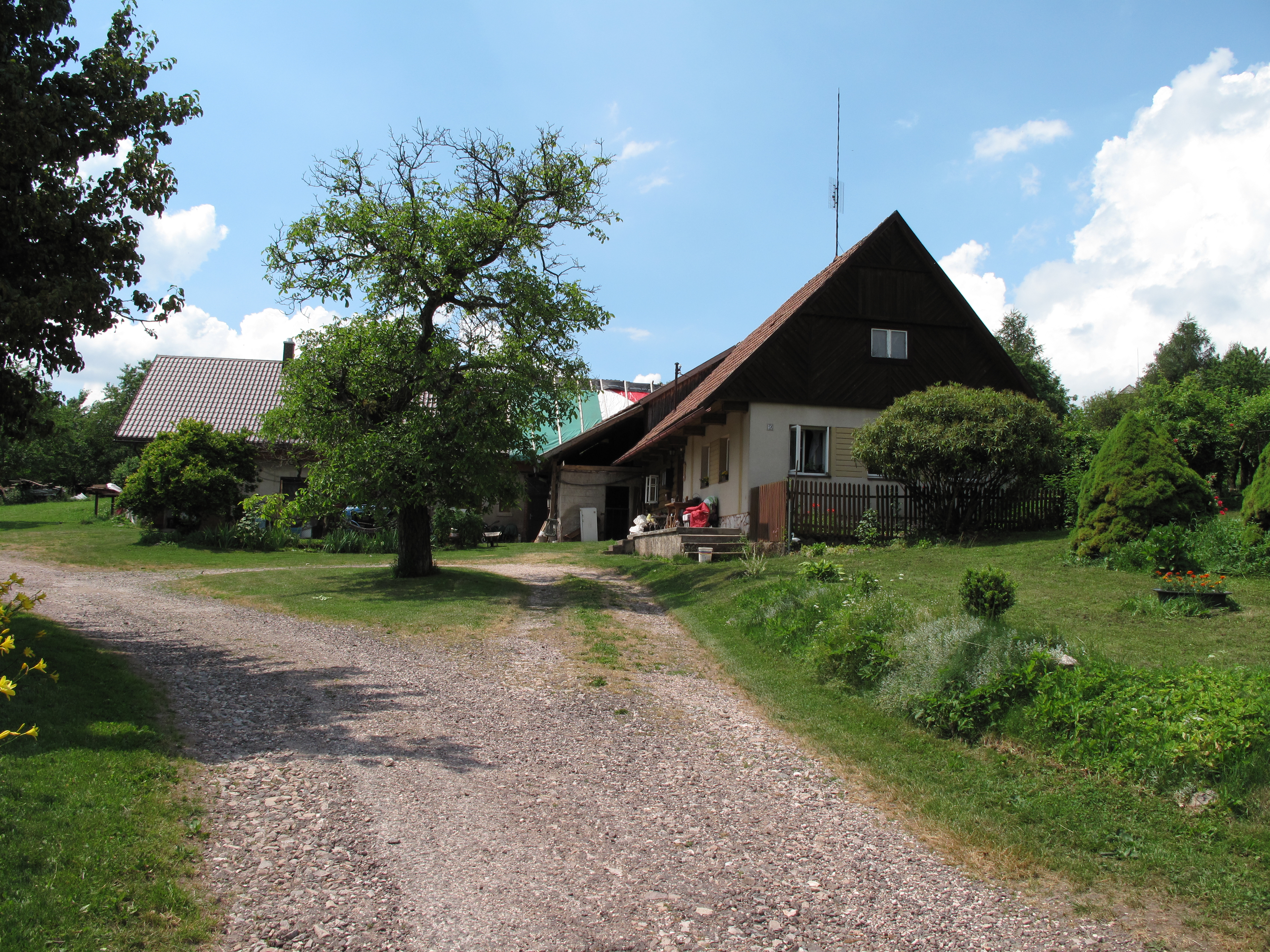 Open yard in Chloumek village (Úbislavice municipality, Jičín District, Czech Republic.